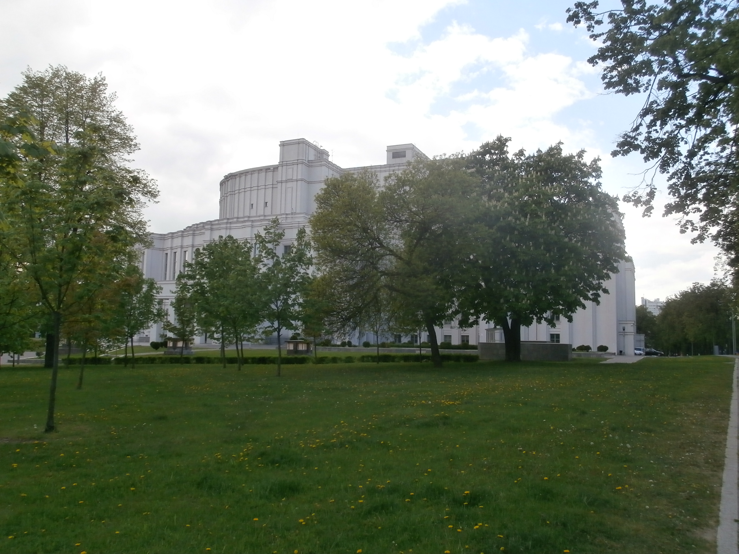 National Academic Grand Opera and Ballet Theatre of the Republic of Belarus Minsk 4 May 2014